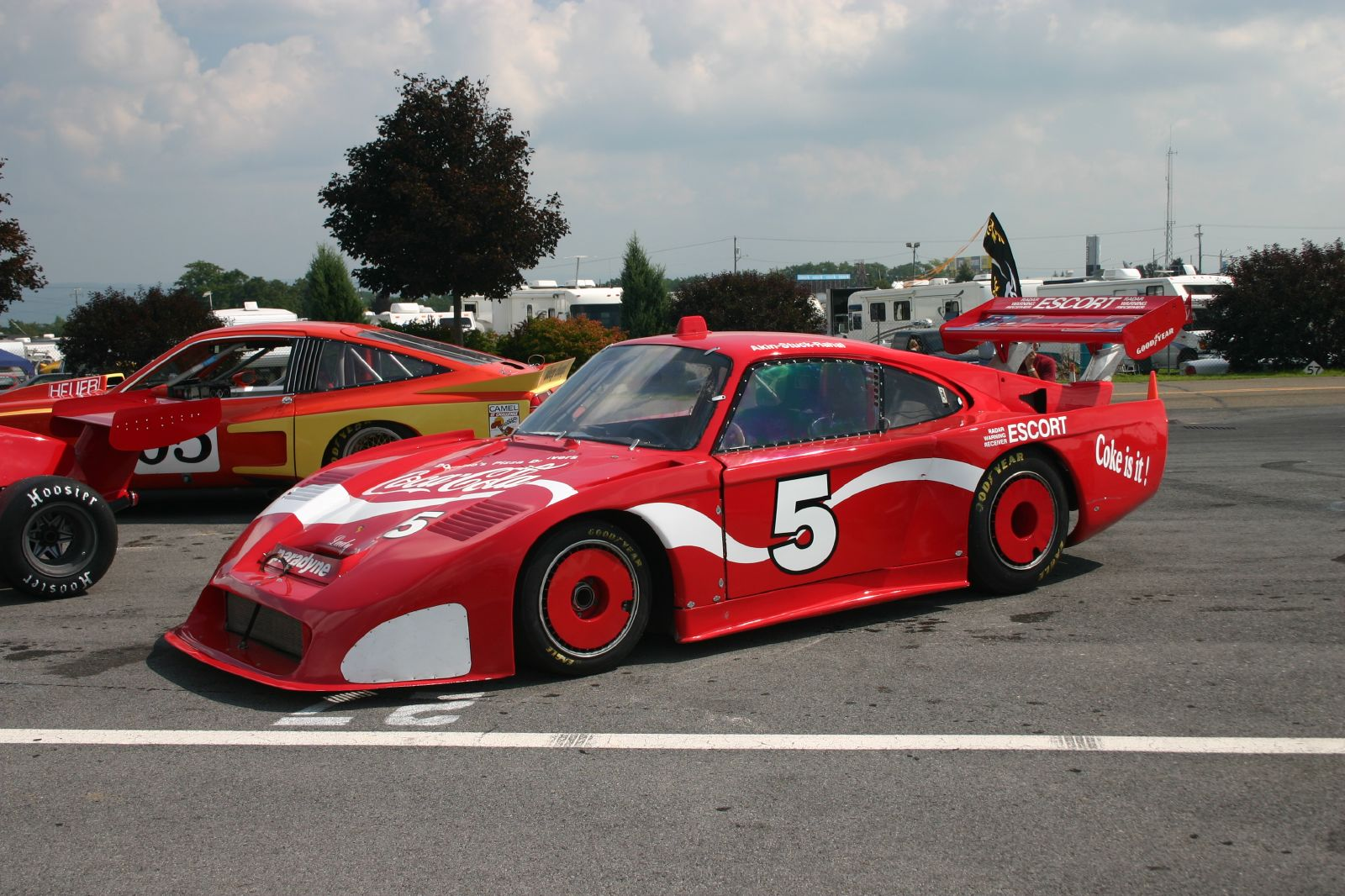 Porsche 935/84 former owned by Bob Akin and build by Fabcar.